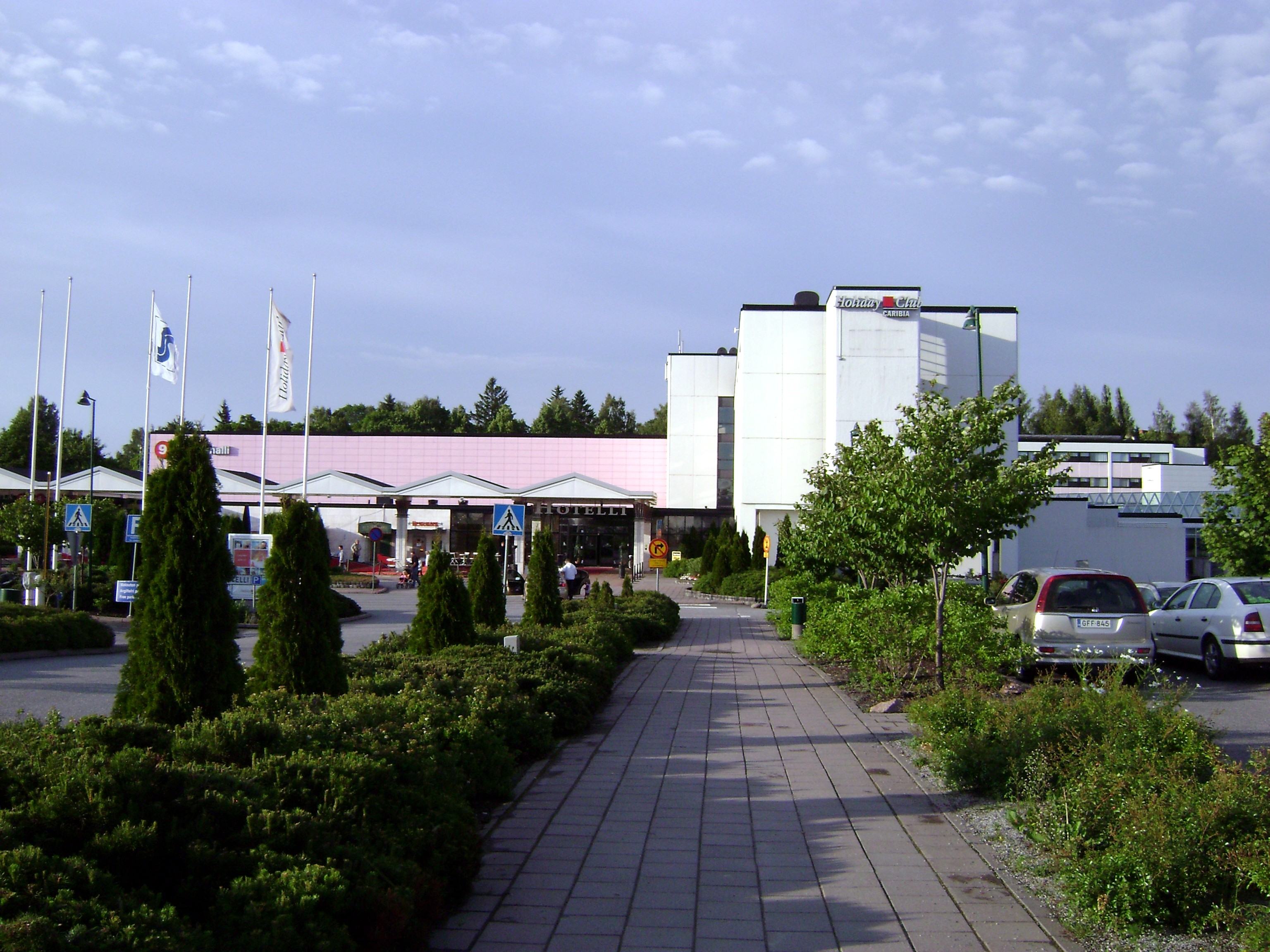 Holiday Club Caribia in Turku, Finland.